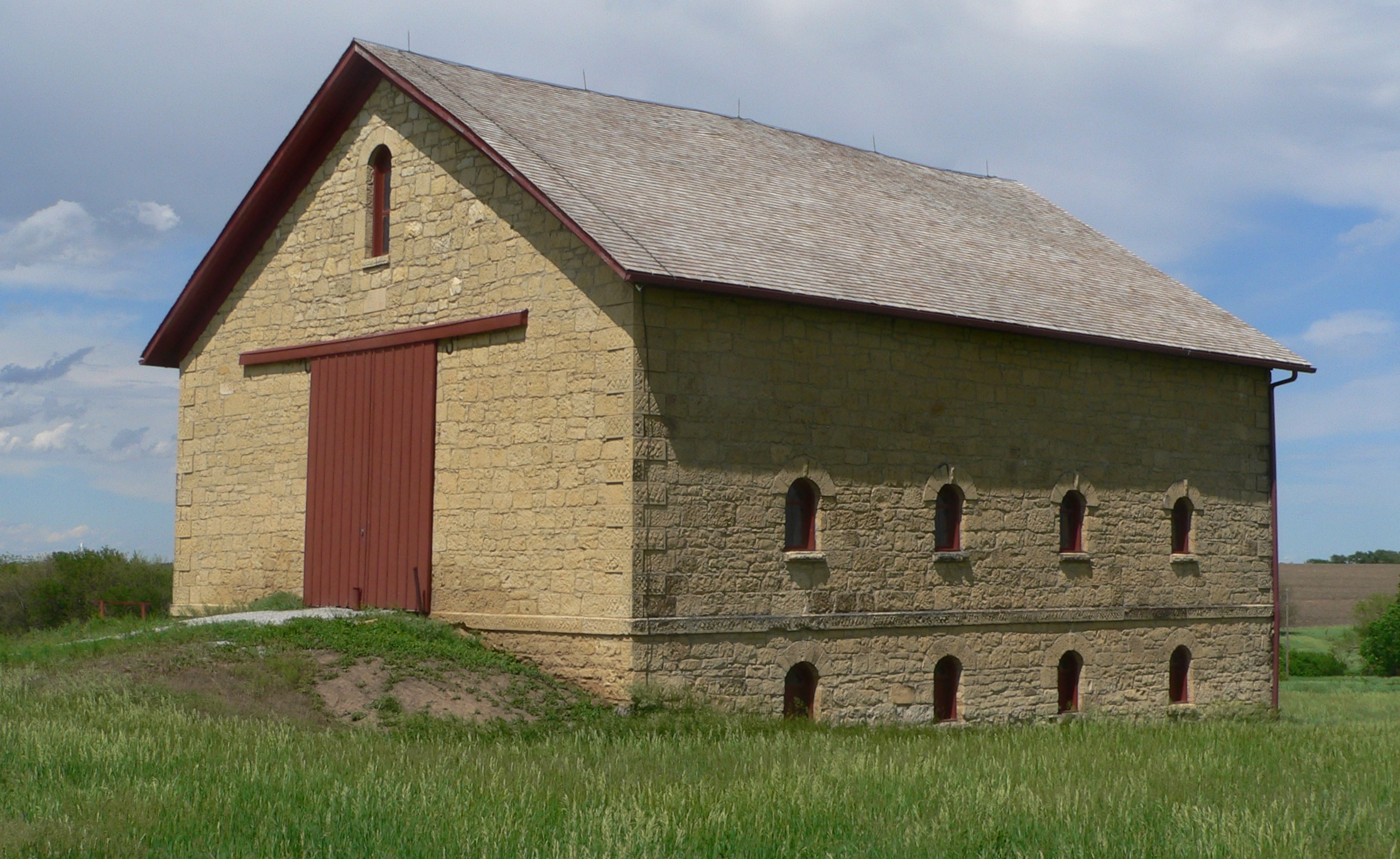 Elijah Filley stone barn, located at 13282 East Scott Road, in rural Gage County south of Filley, Nebraska; seen from the southwest.